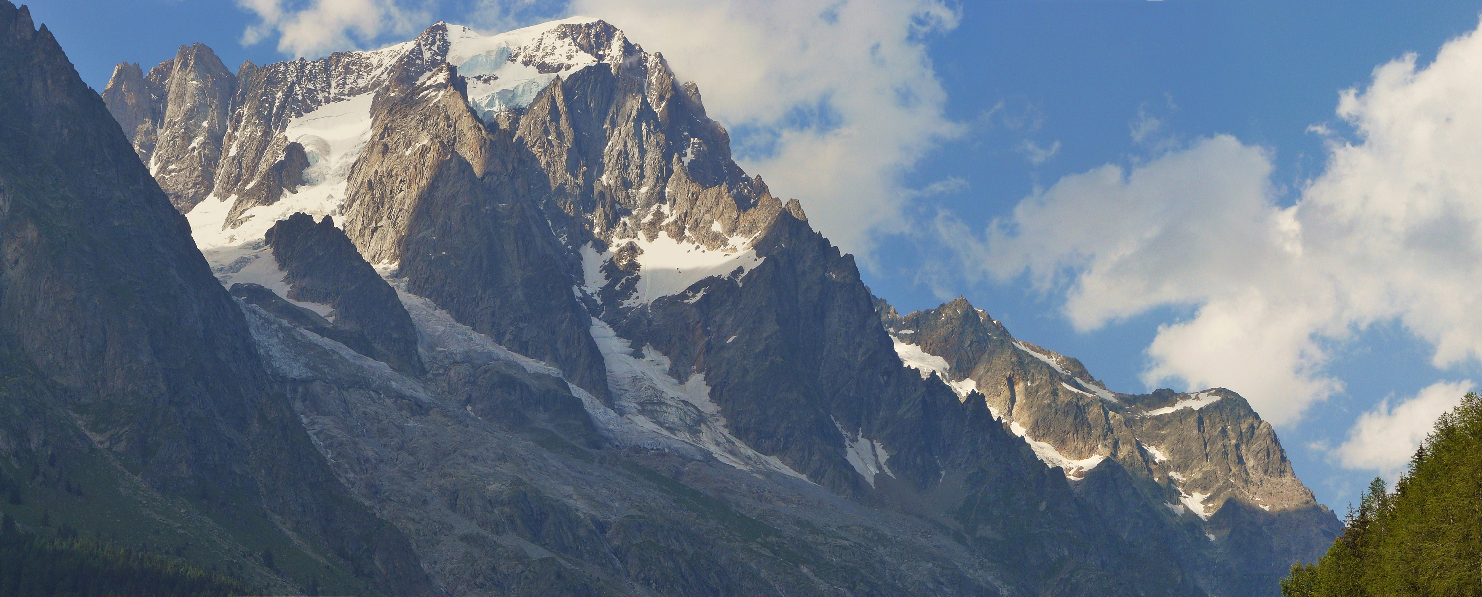 Grandes Jorasses (4,208 m) as seen from La Palud in 2009 July.